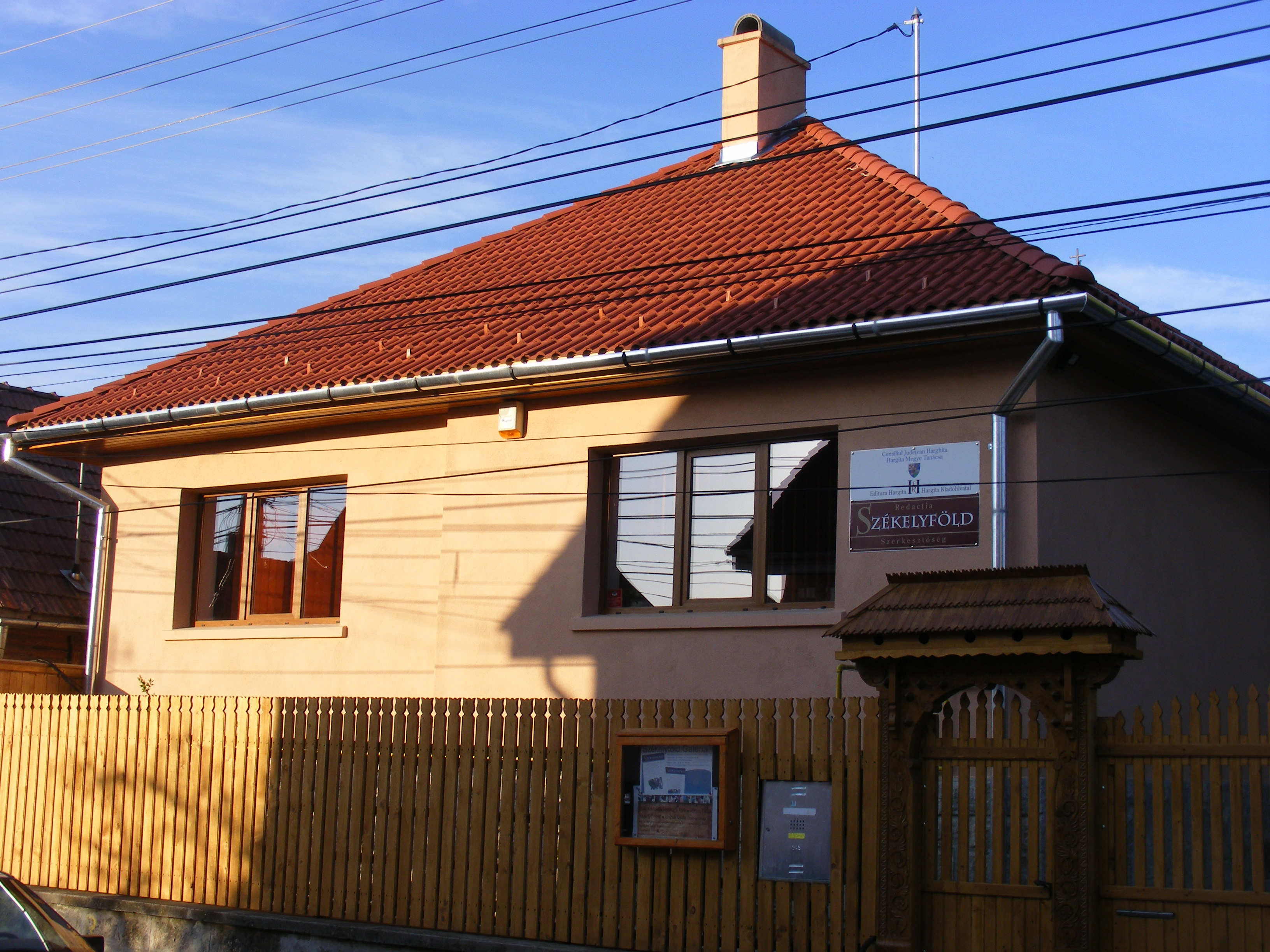 The Székelyföld newspaper's editorial in Csíkszereda.